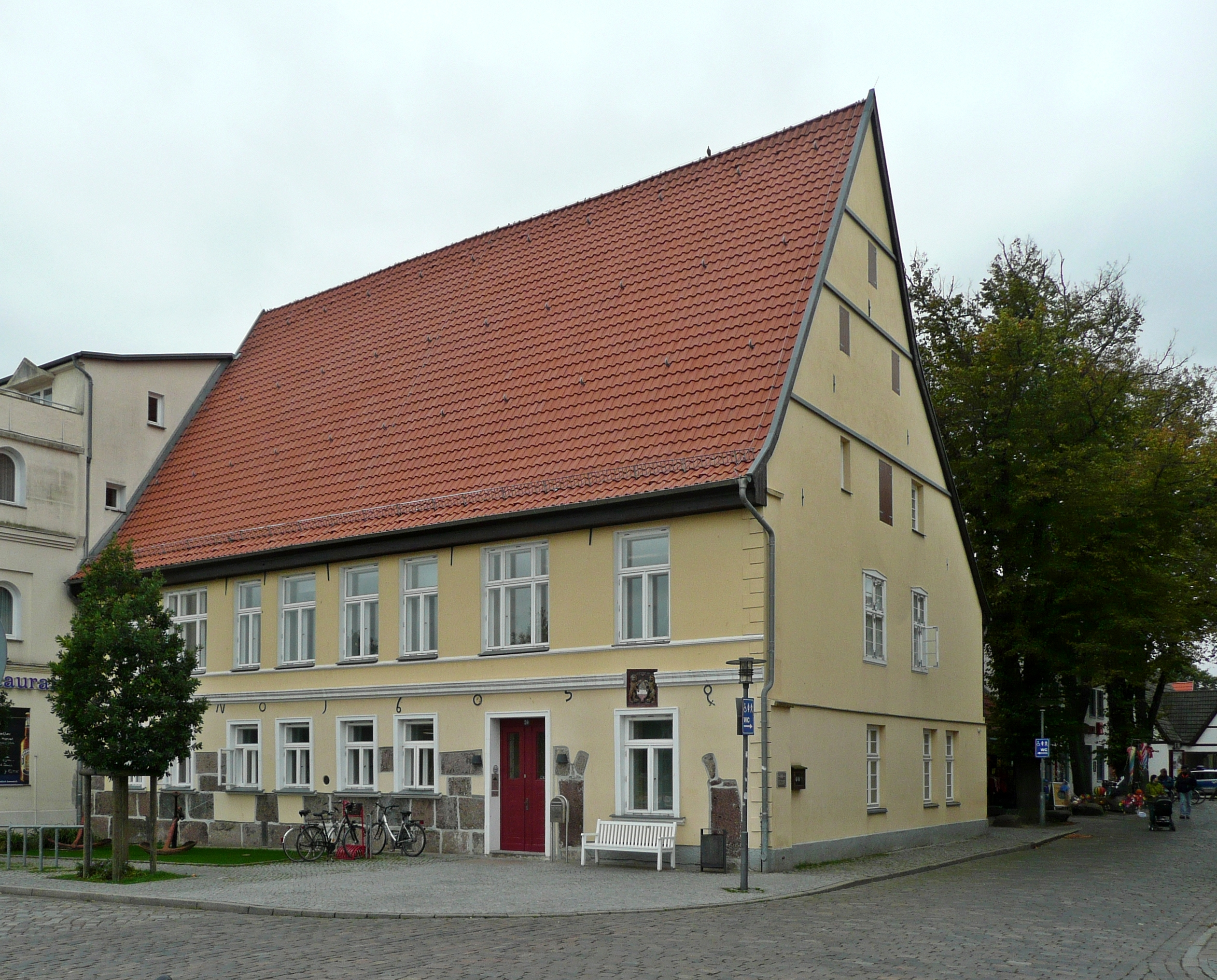 This image shows the Vogtei, the oldest building of the seaside resort Rostock-Warnemünde.